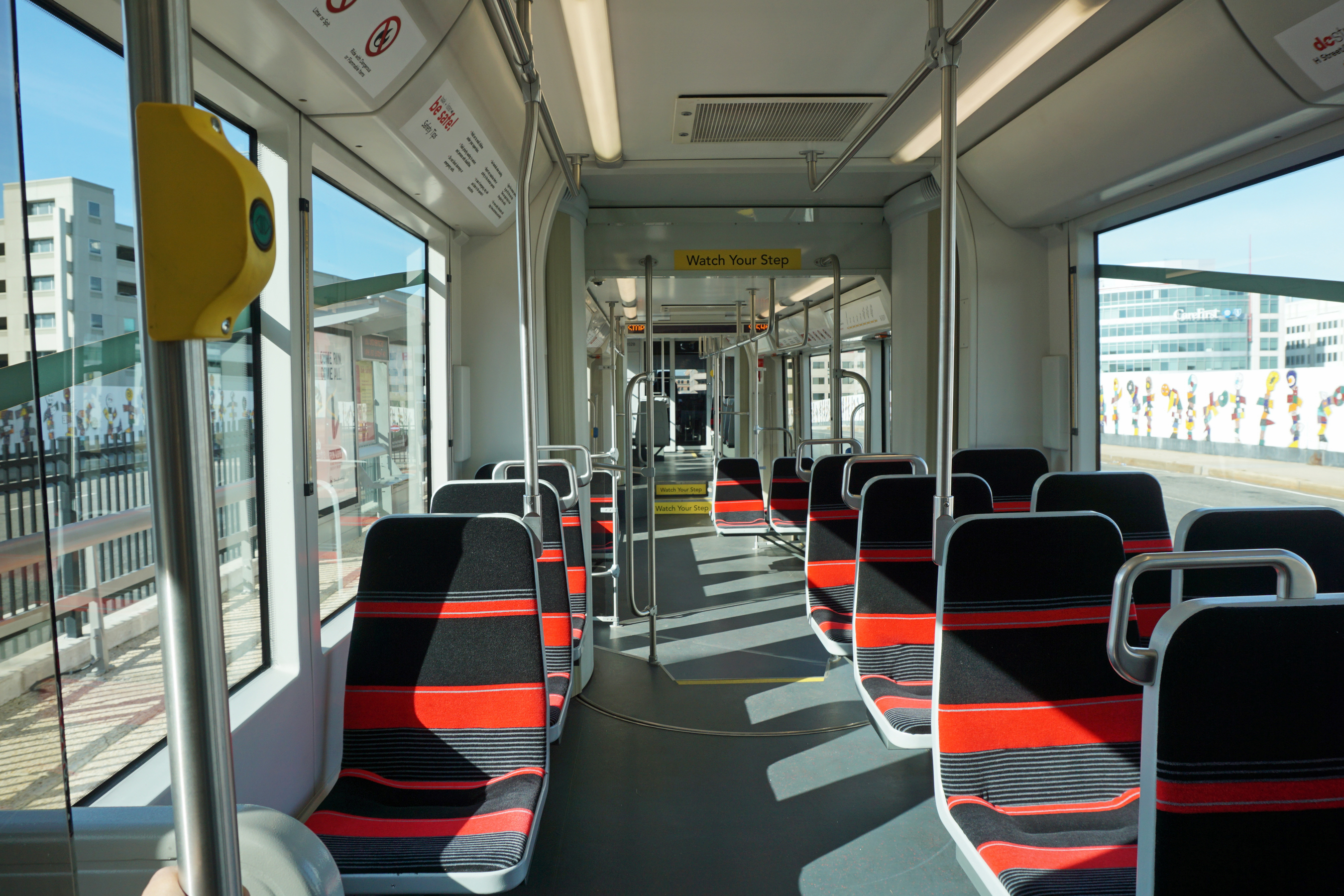 Interior of a DC Streetcar, H Street NE line, Washington, D.C.